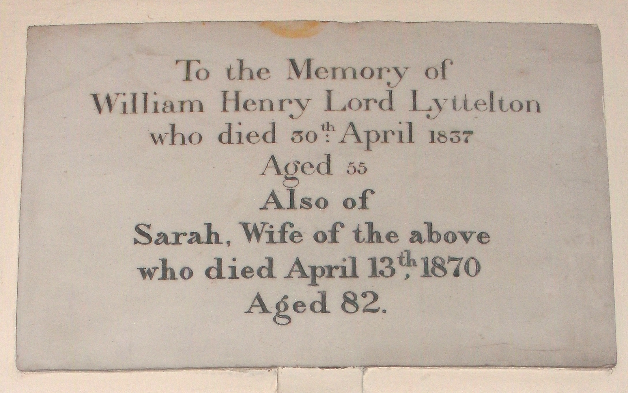 Hagley, Worcestershire, St John the Baptist Church - interior, memorial to William Henry Lyttelton, 3rd Baron Lyttelton (1782–1837)